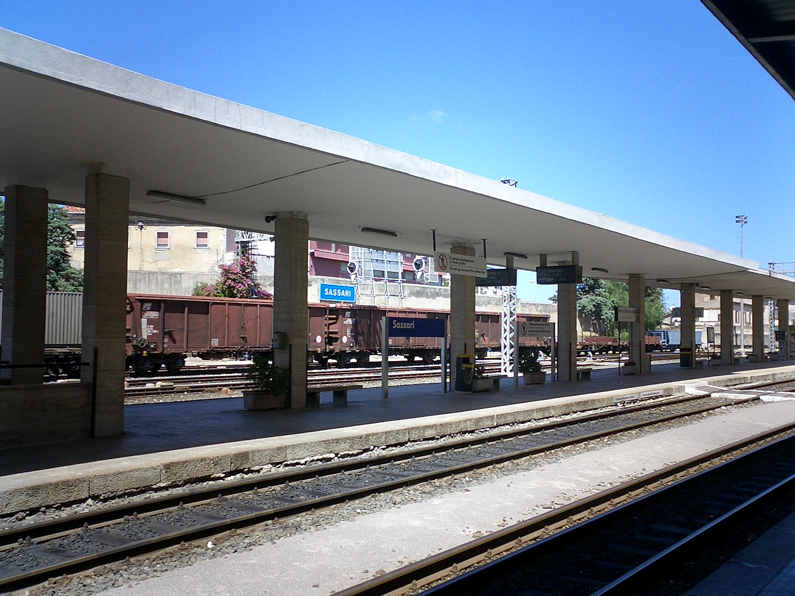 Platform inside the railway station of Sassari, Sardinia, Italy